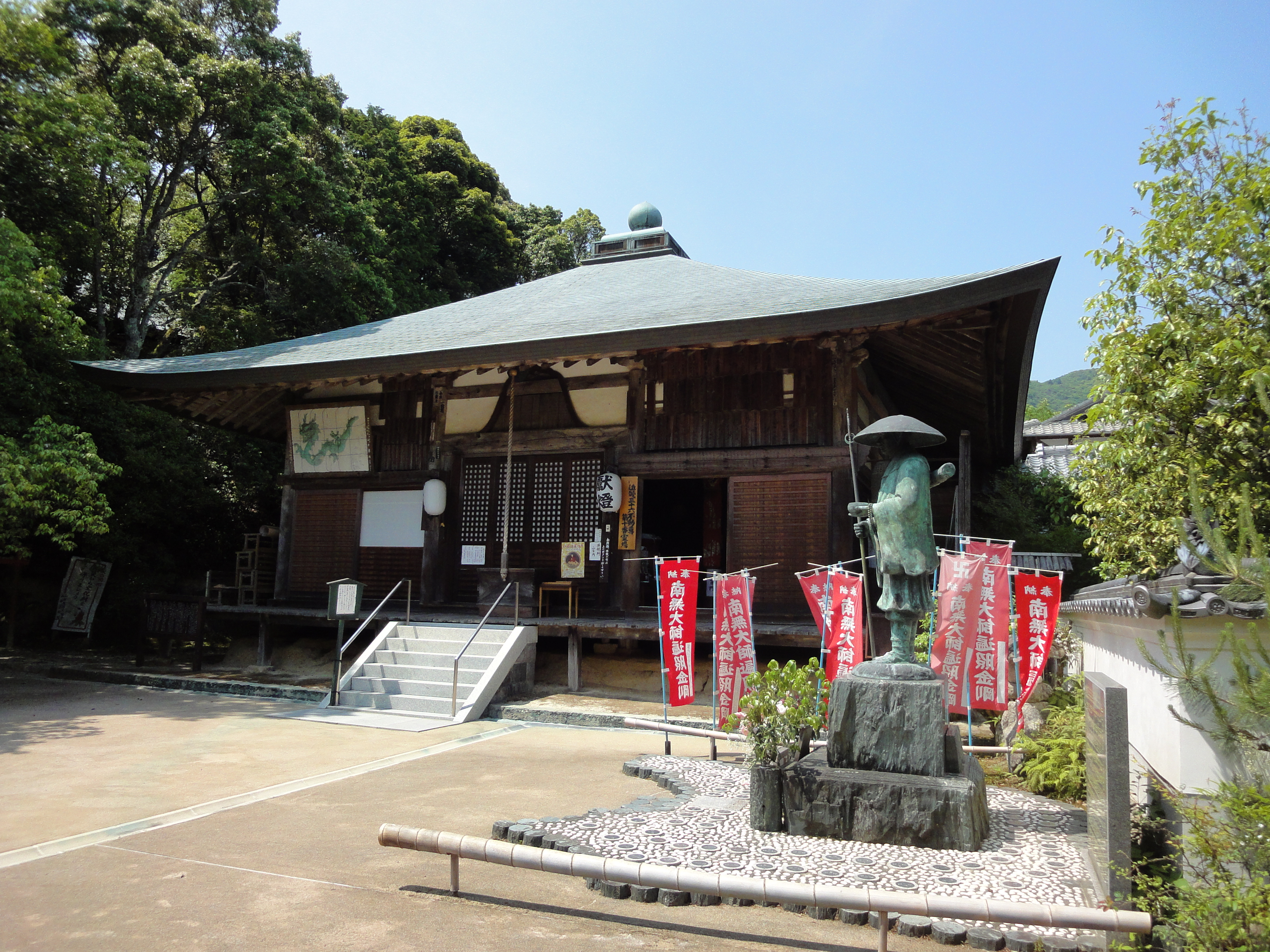 Mudouji is a Buddhist temple in Kita-ku, Kobe, Japan.